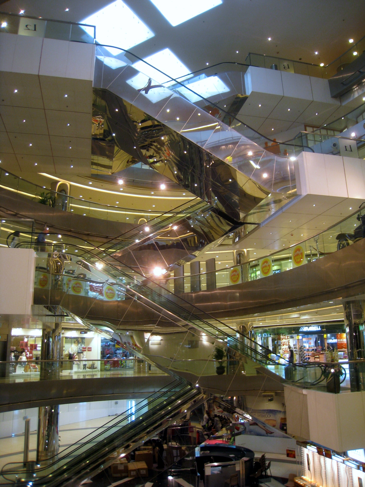 New World Centre Void 新世界中心商場中庭